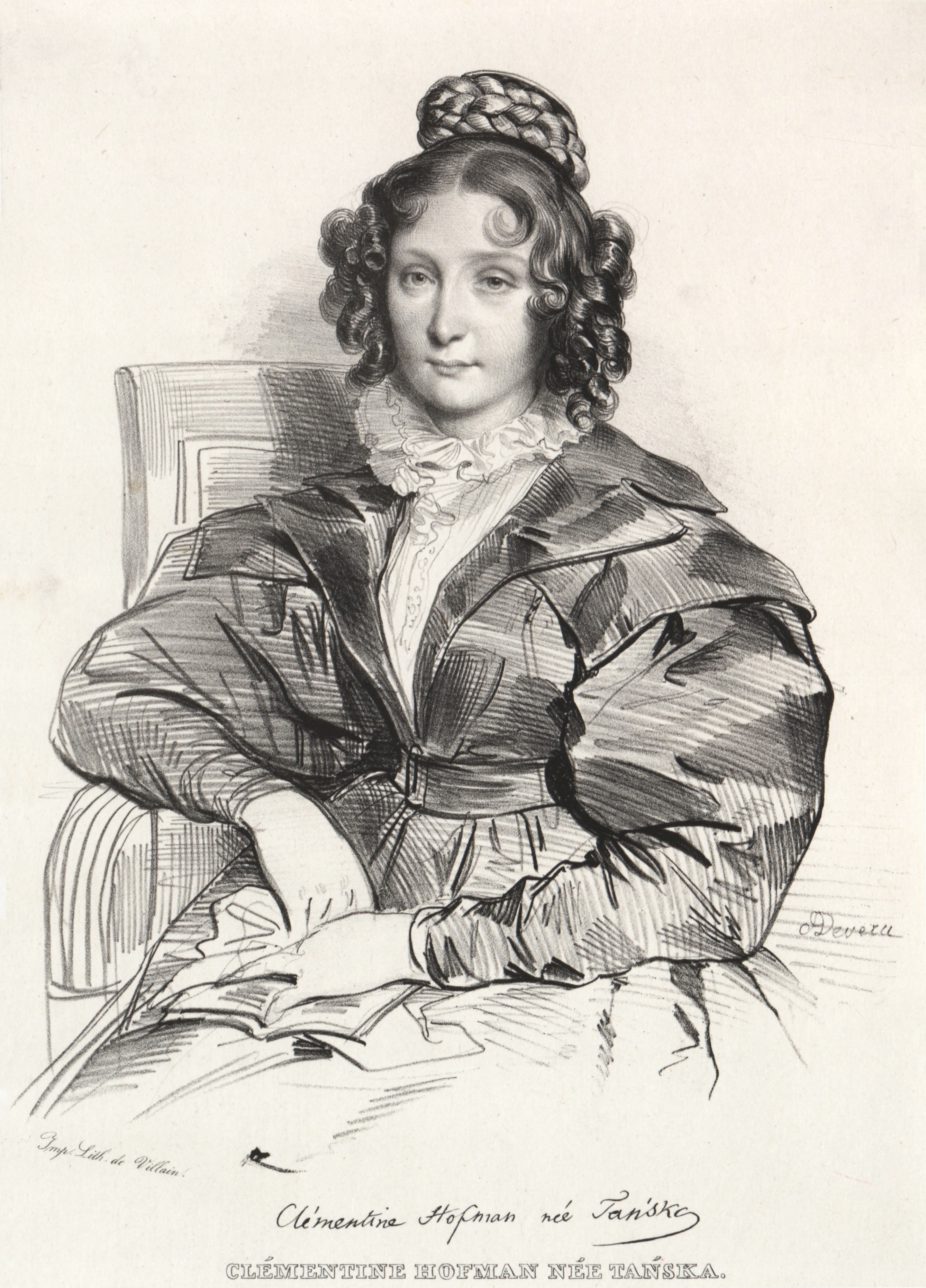 Klementyna Hoffmanowa (born Klementyna Tańska; 1798 – 1845), Polish popular literary writer, translator, editor, and one of Poland's first writers of children's literature. She co-organized and chaired the Patriotic Charity Association. She was the first woman in Poland to support herself from writing and teaching, and considered herself primarily a writer. A lithograph originally published in: Straszewicz J., Die Polen und die Polinnen der Revolution vom 29 November 1830, Stuttgart [1832–1837]. Below the image there is a facsimile of the autograph.